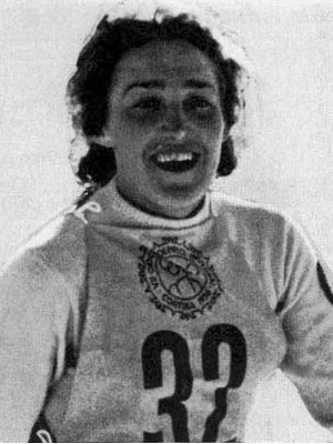 Soviet cross-country skier Lyubov Kozyreva winner of the ladies’ cross-country 10 km at 1956 Winter Olympics in Cortina, Italy